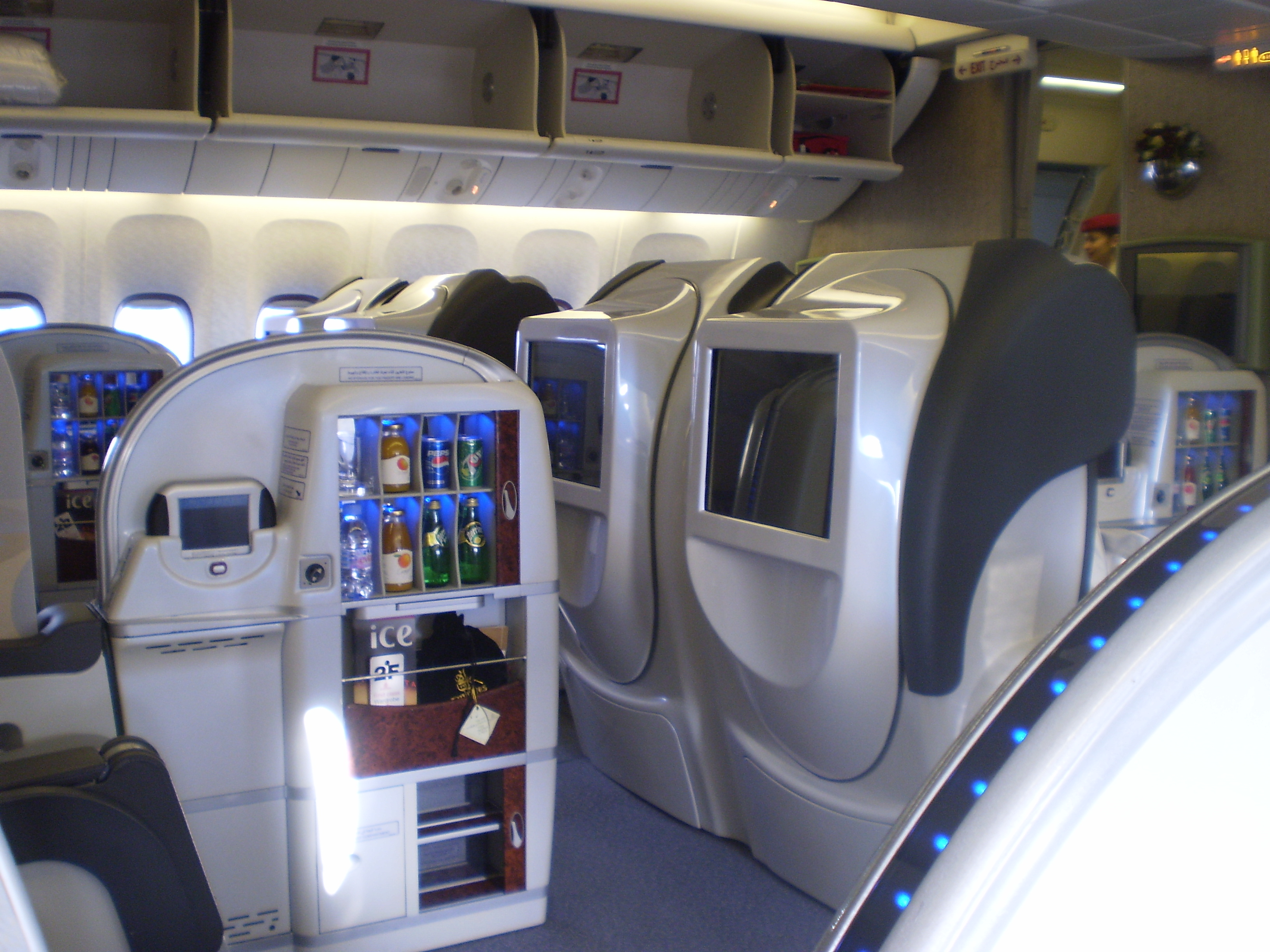 Interior view of the First Class cabin onboard Emirates Airlines' Boeing 777-300ER